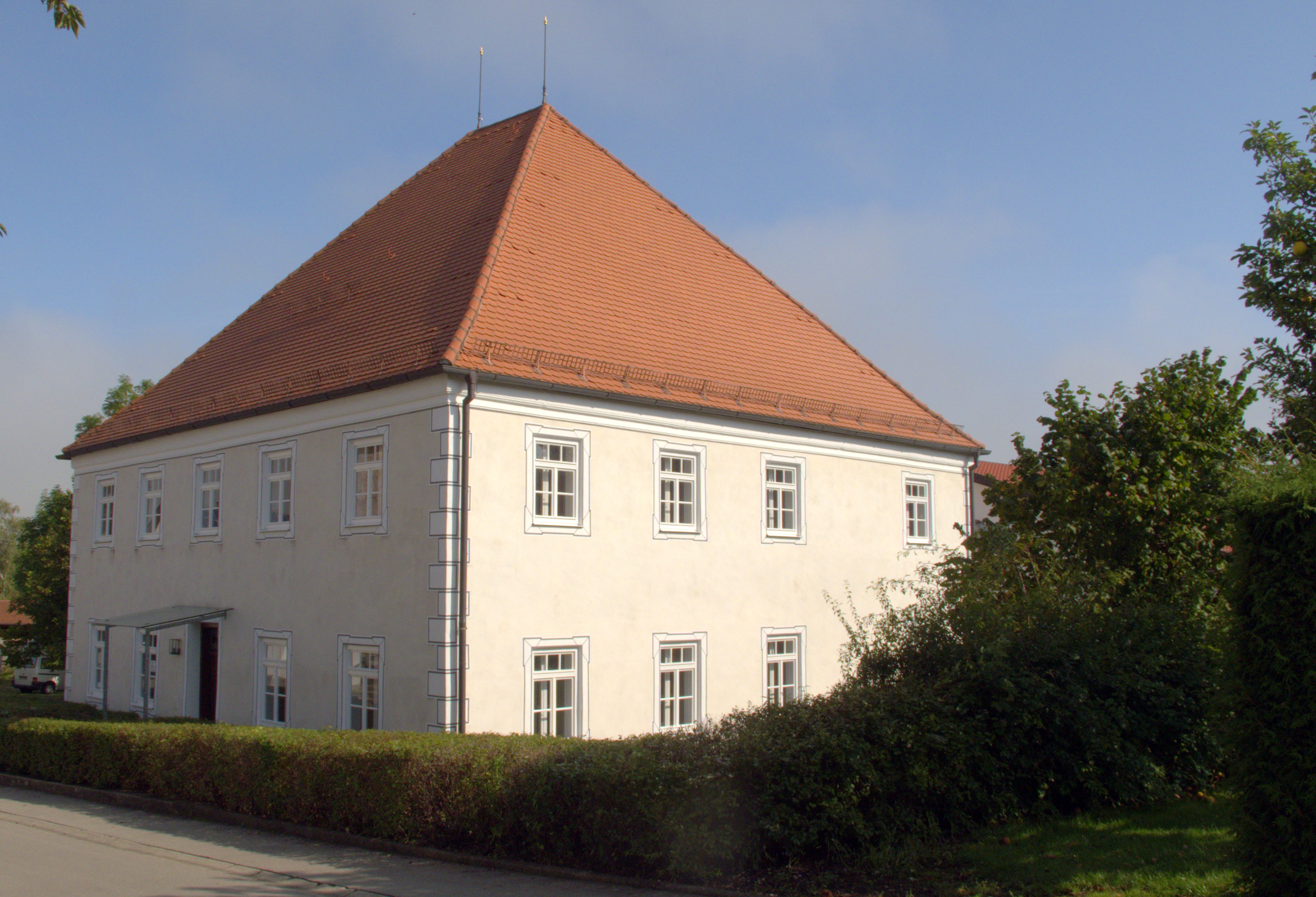 This is a photograph of an architectural monument.